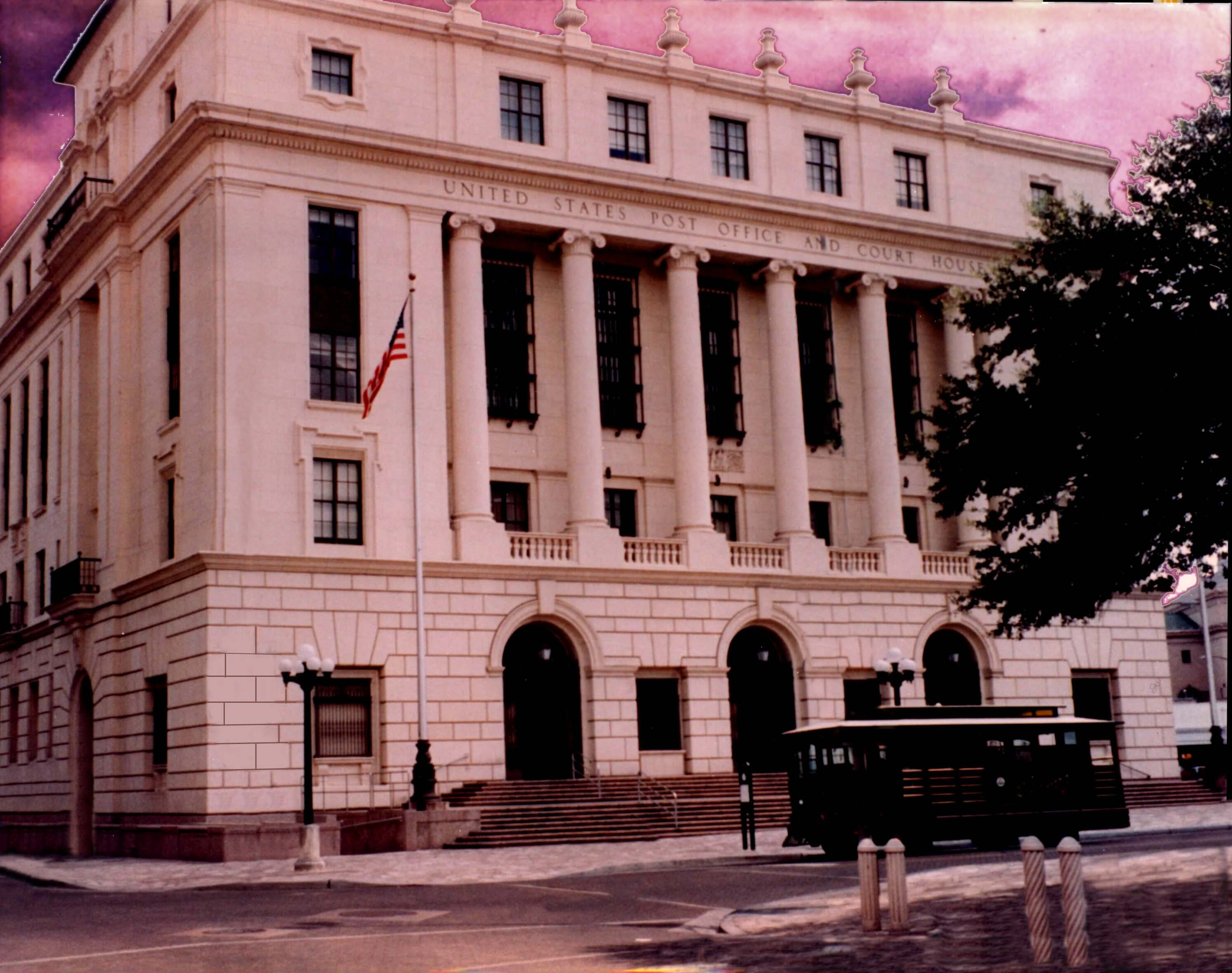 Hipolito F. Garcia Federal Building and U.S. Courthouse, San Antonio, TX, August 2003